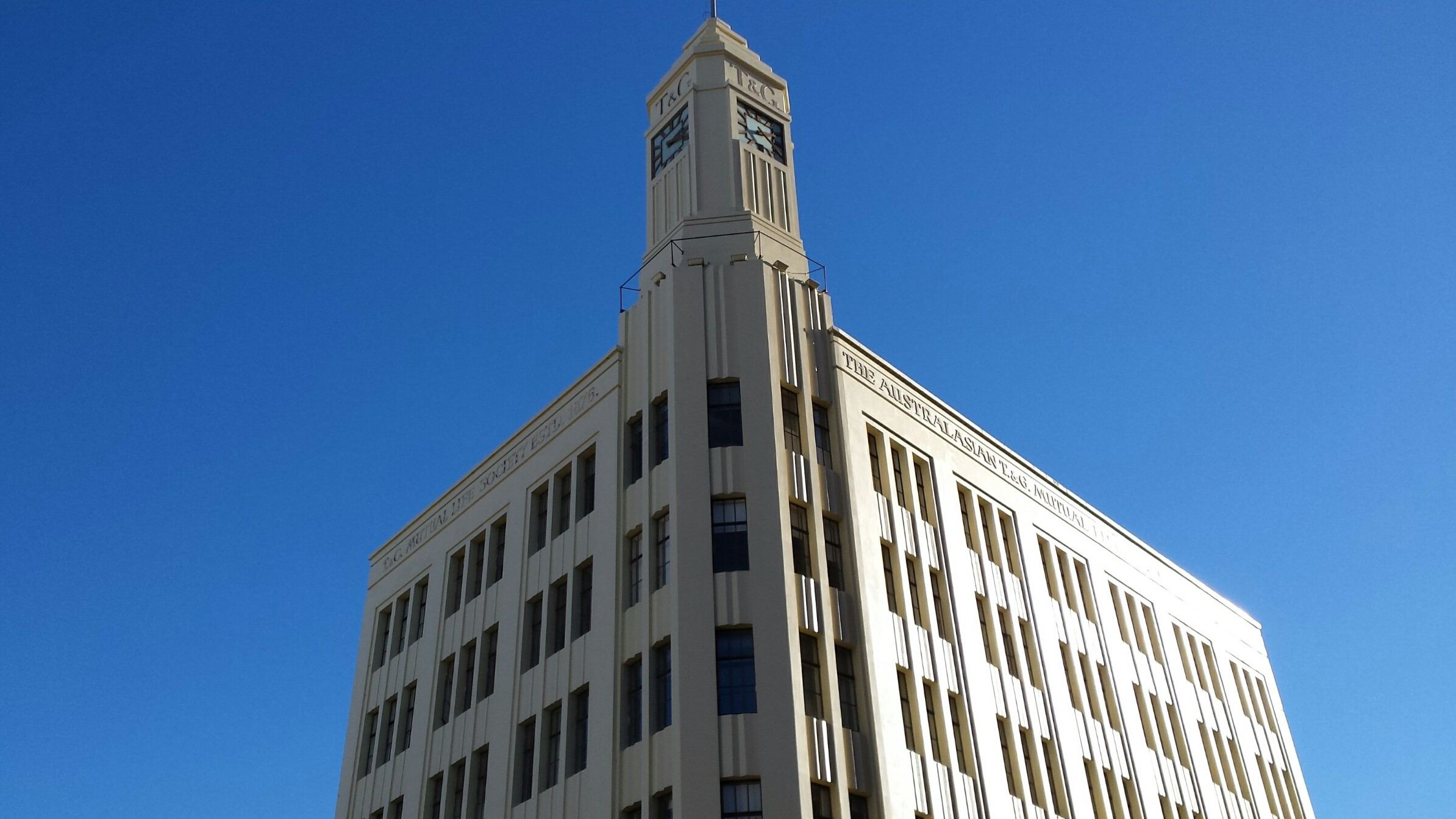 T&G Building in Hobart, Tasmania